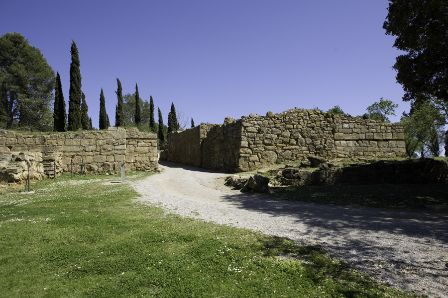 Surrounding wall of an ancient Iberian city in Ullastret, province of Gerona. Catalonia. Spain